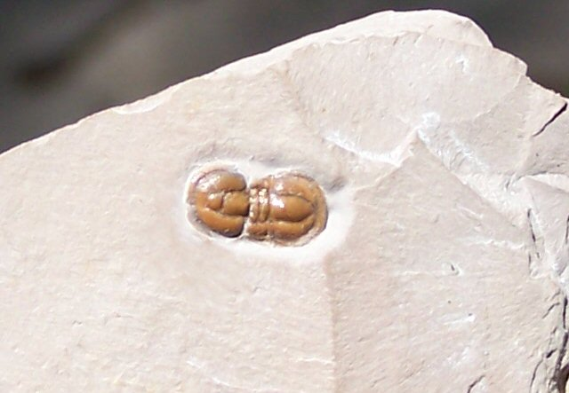 Photo of a trilobite, Itagnostus interstrictus (Peronopsis interstrictus). Taken by DanielCD on 4/23/05. Comes from Cambrian age strata of Utah.